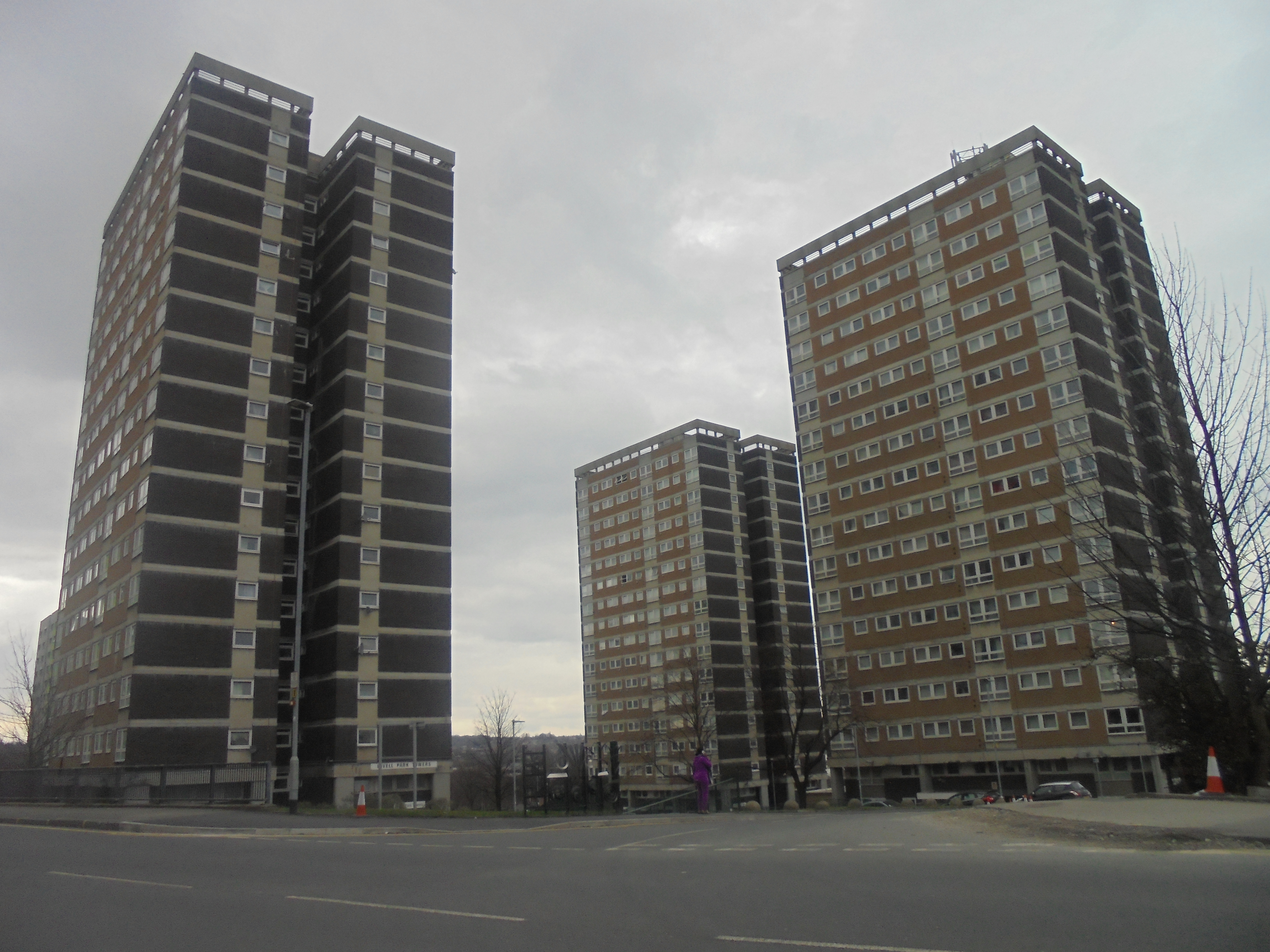 Lovell Park (left to right) Towers, Grange, Heights, Little London, Leeds, West Yorkshire. Taken on the afternoon of Thursday the 29th of May 2018. (The clocks having moved mean the time is an hour later than the metadata suggests).